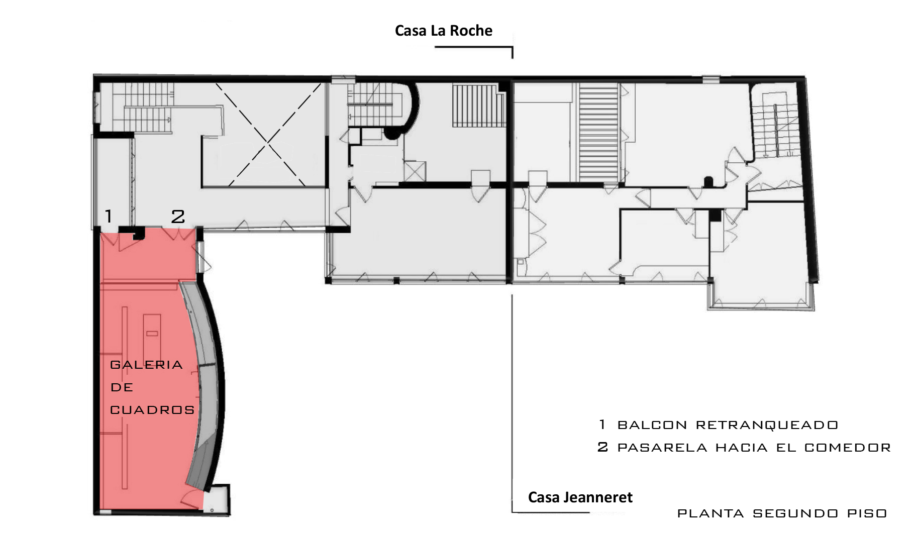 Planta de la Galería de Cuadros